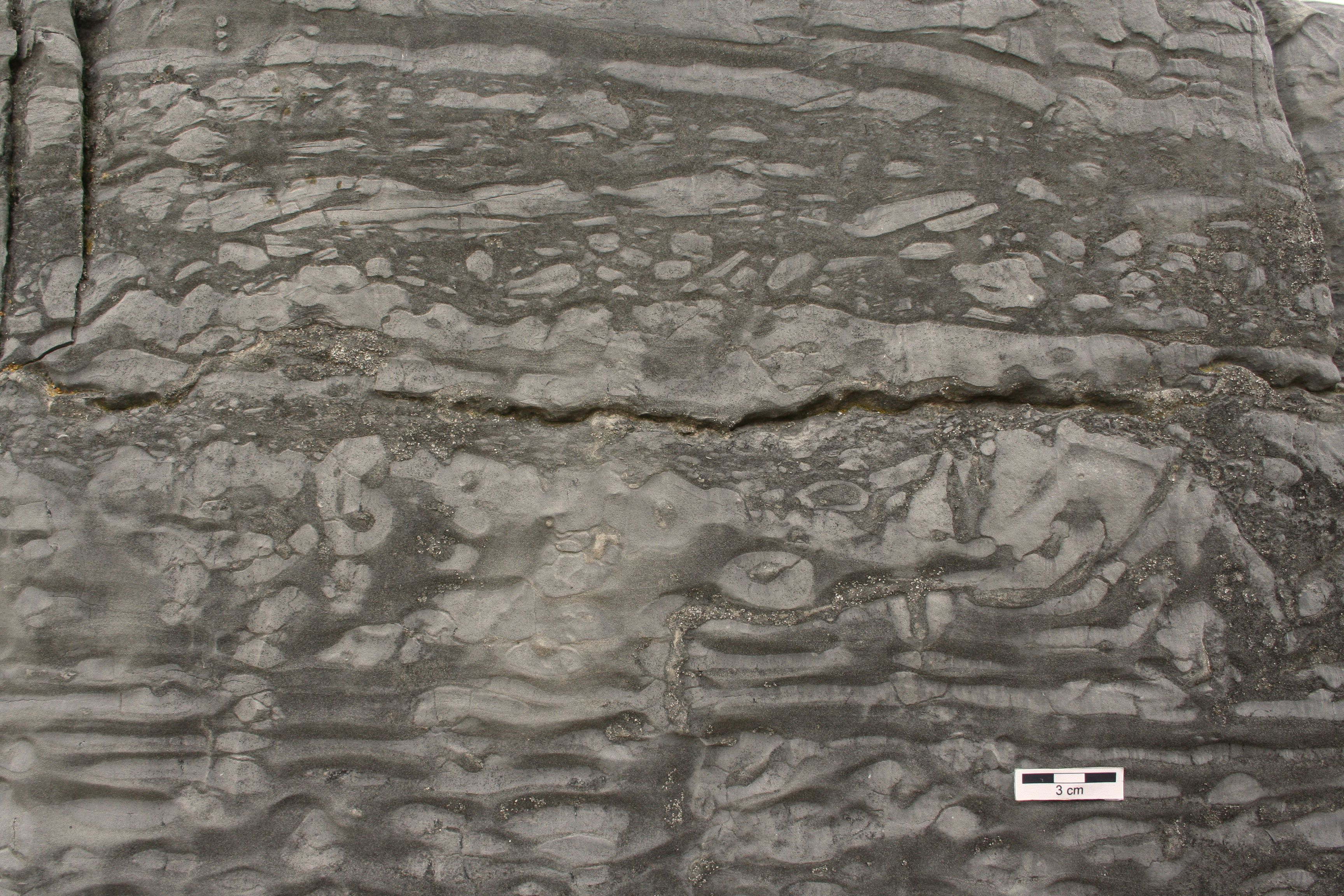 Oncoids in the Crown Point Formation (Ordovician) at the "Redoubt" locality near the at the Crown Point Historical Site near Crown Point, New York.